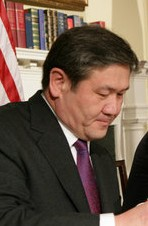 Enkhbayar and G.W.Bush